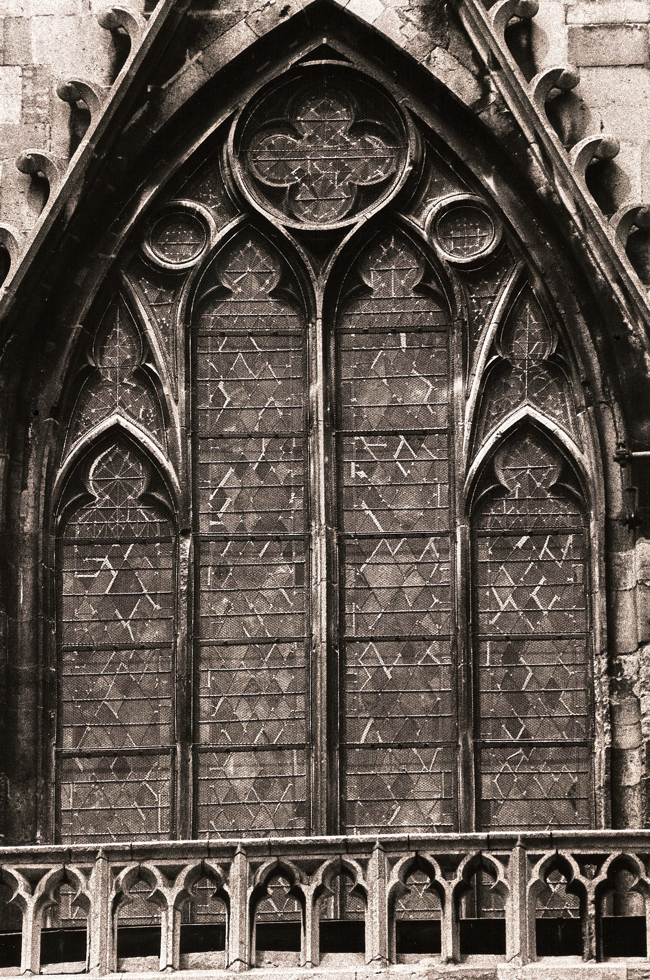 Obergaden window, view from outside, Cathedral of Regensburg